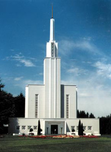 Photograph of the Mormon Temple in Bern, the first LDS Church temple built in Europe. 1955.